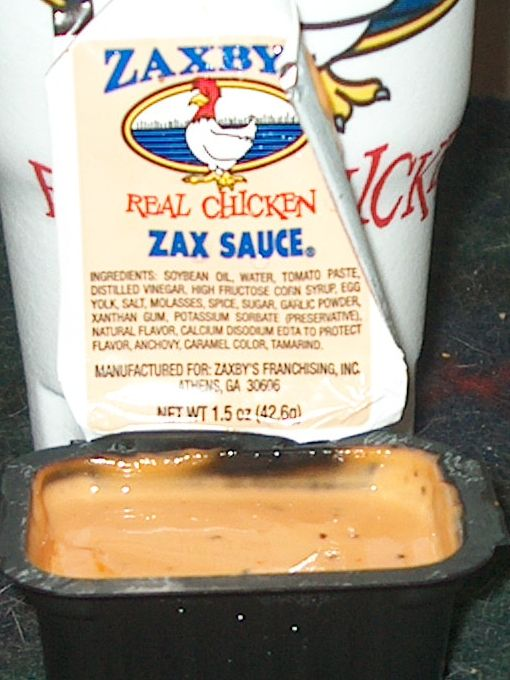 famous Zaxby's sauce